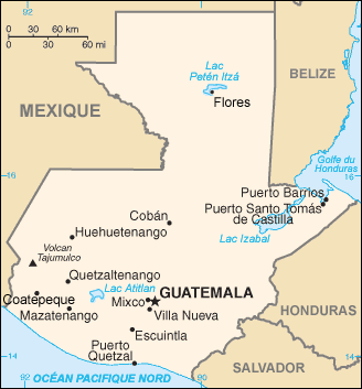 Map in French of Guatemala